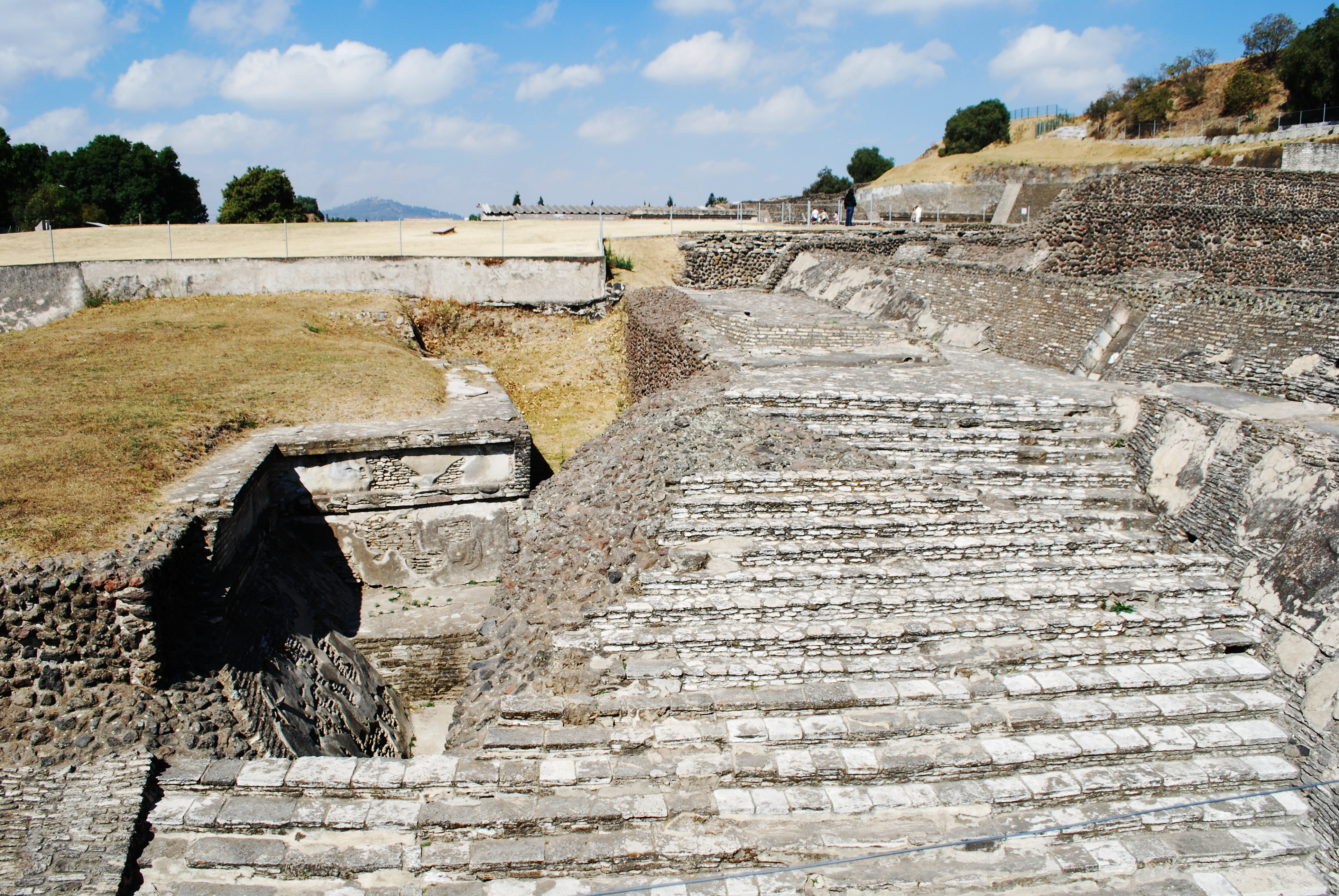 Teotihuacan building at the Great Pyramid of Cholula, Puebla, Mexico